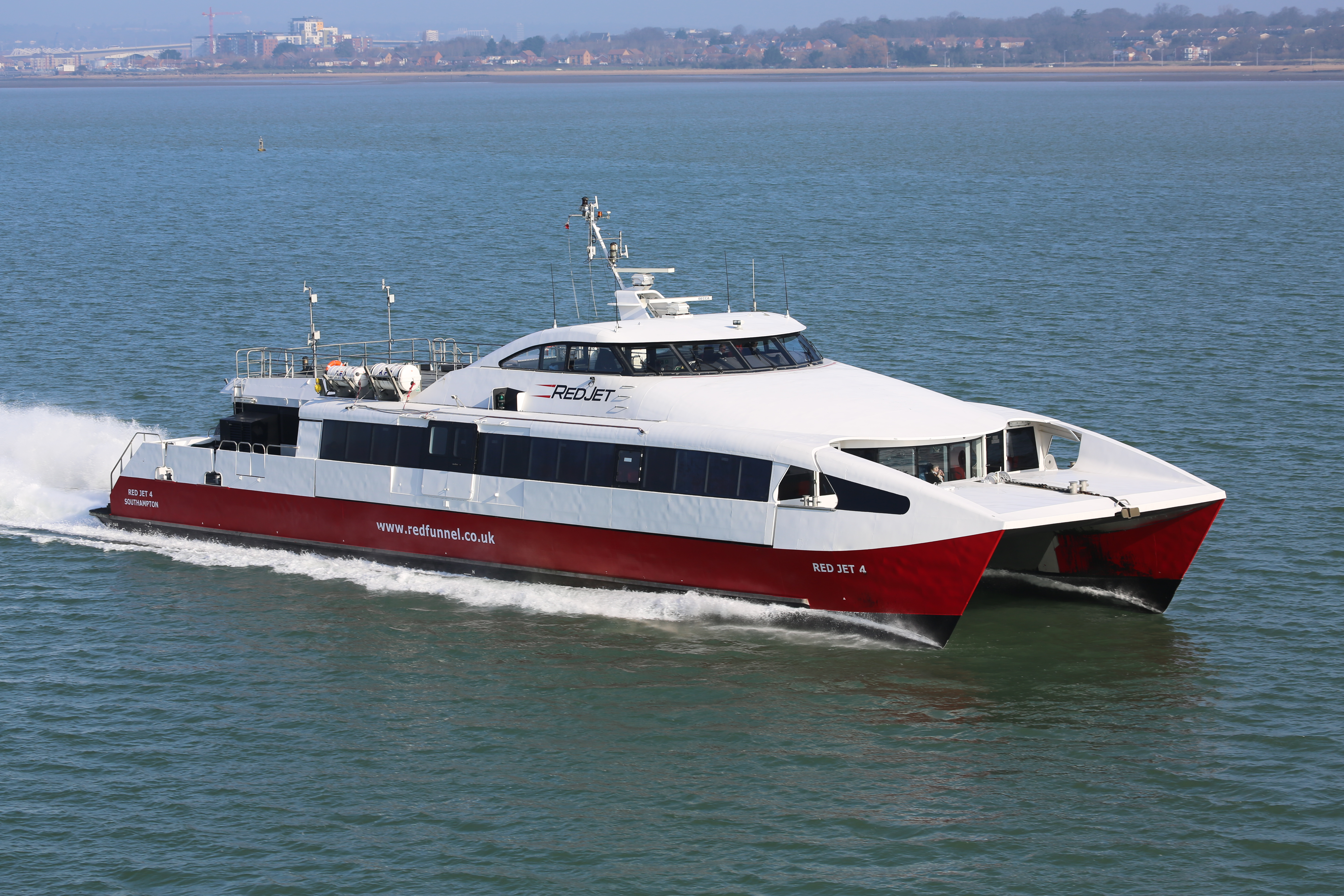 Photo of MV Red Jet 4 taken from a ferry being overtaken